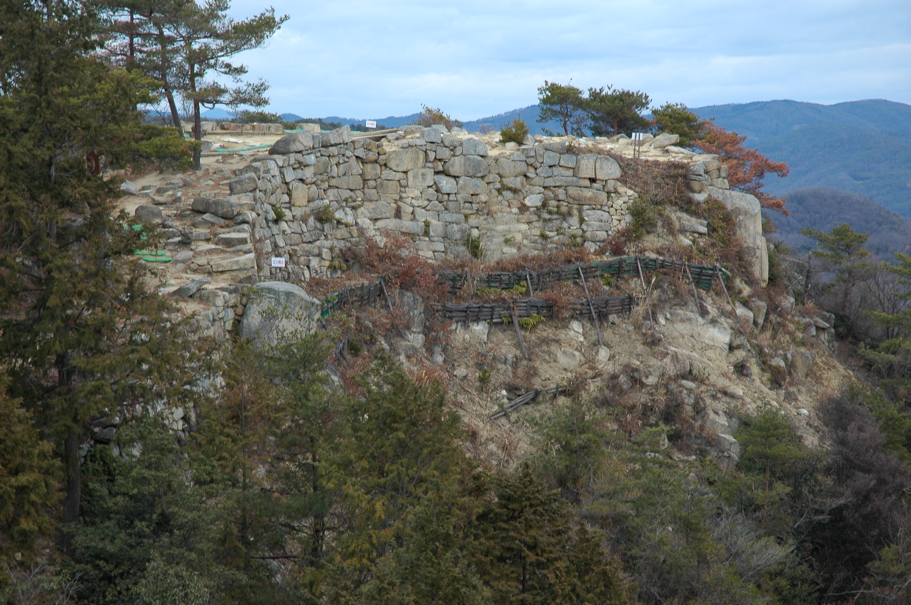 photo of Kinojō stone wall(west side)